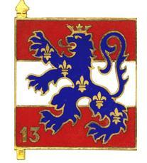 Insignia of the 13th Infantry Division.